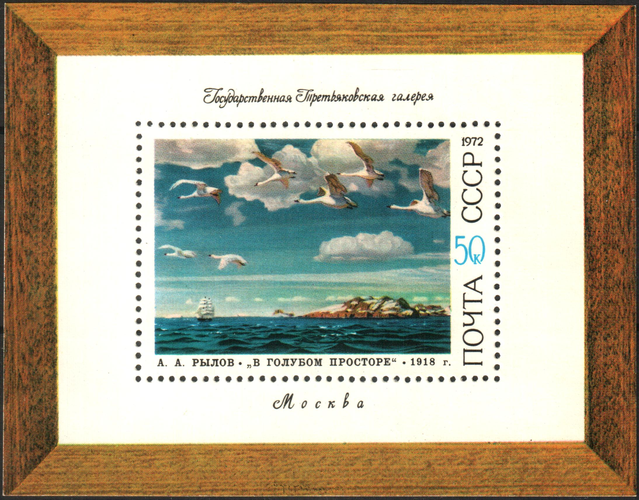 USSR sheet of 1